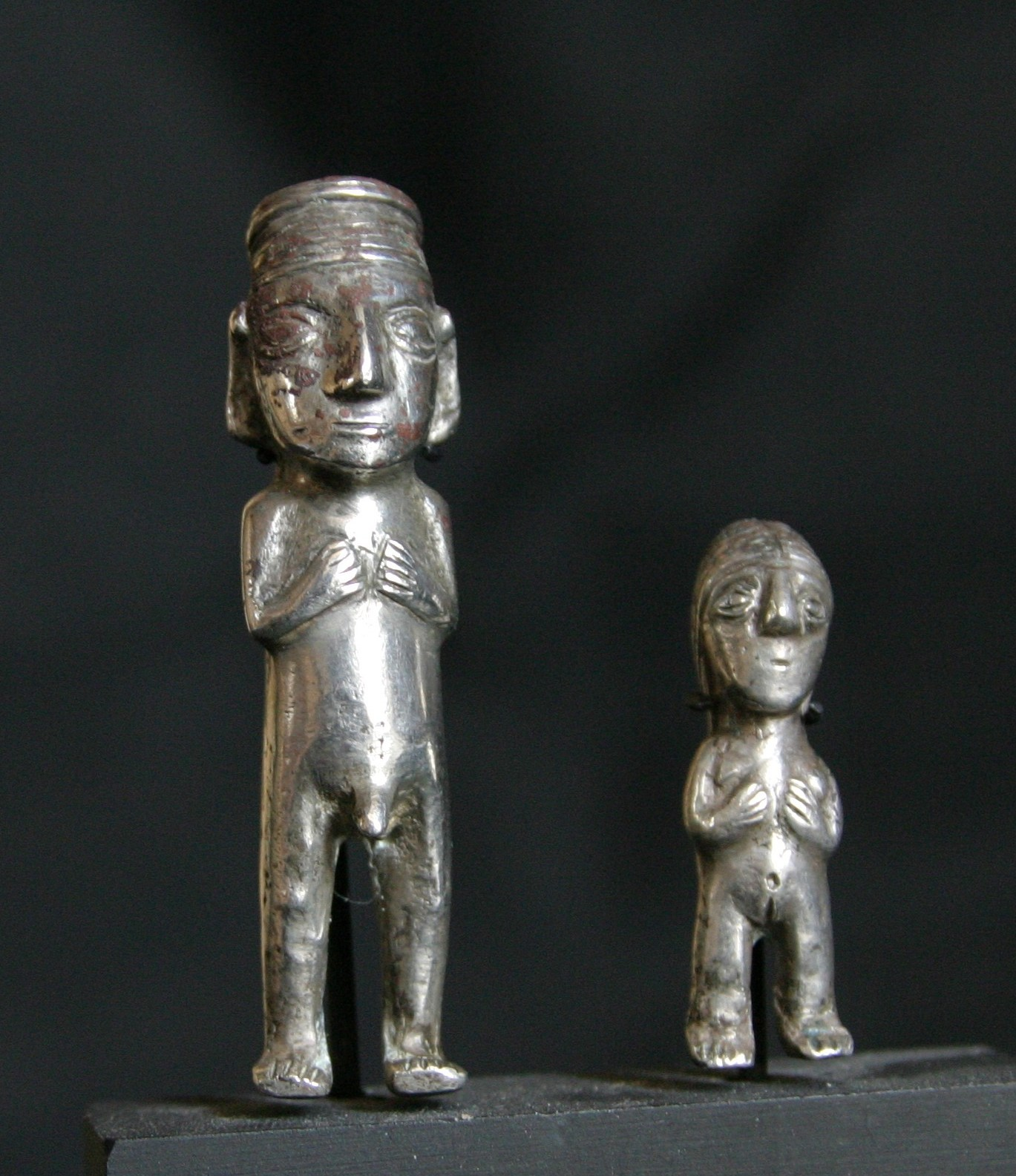 Inca silver figurines